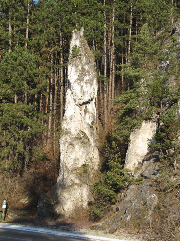 Poluvsianska skalná ihla, Poluvsie, Slovakia